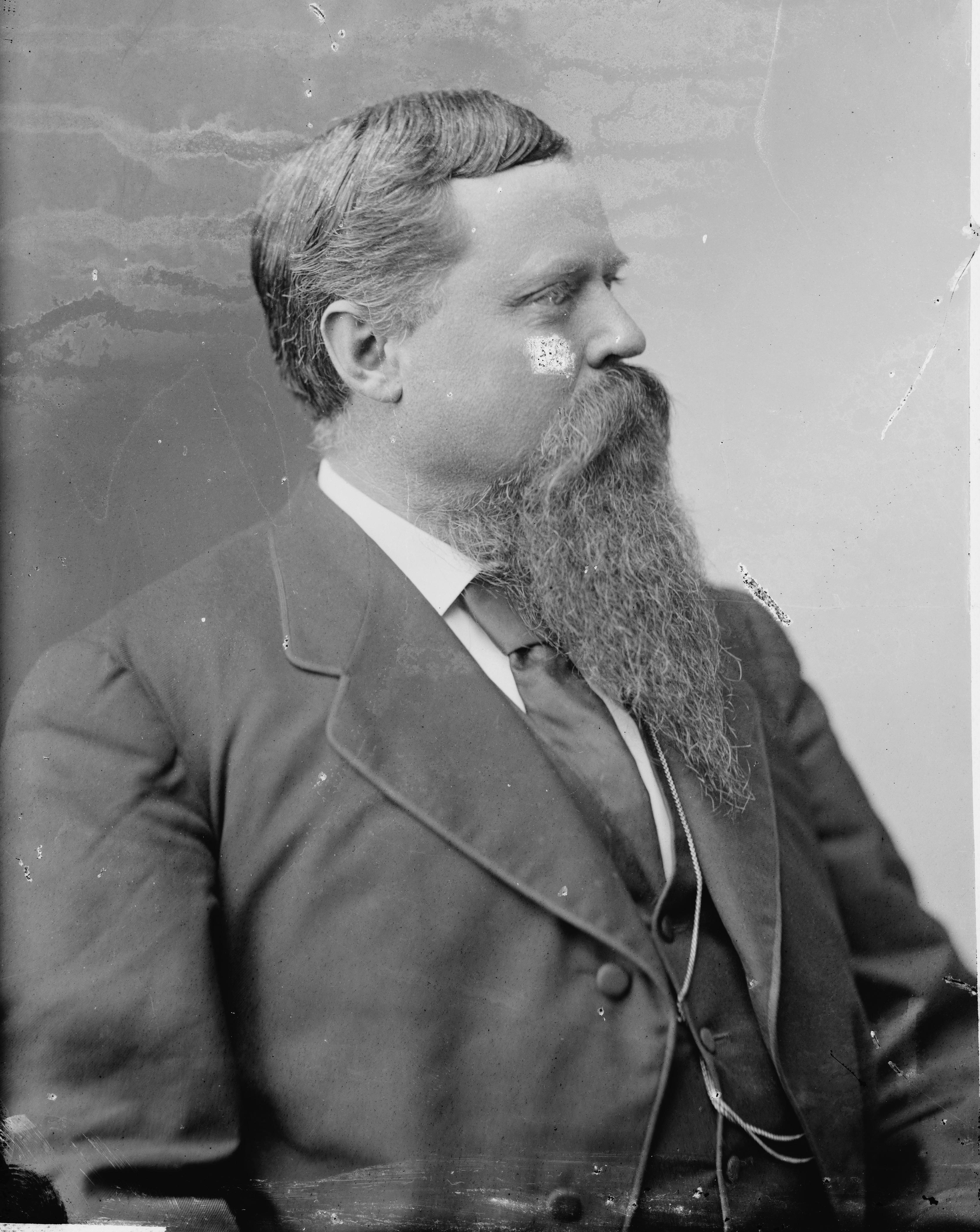 Fitzhugh Lee. Library of Congress description: "Lee, General Fitzhugh, CSA (not in uniform)".